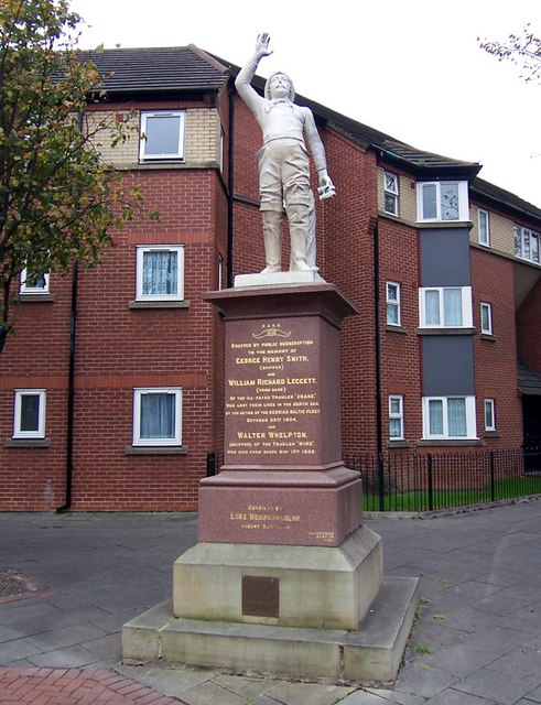 North Sea Incident 1904 - Memorial, Hull, East Riding of Yorkshire, England.Situated on Hessle Road near the junction with the Boulevard the inscription on this statue reads: "Erected by Public Subscription to the memory of George Henry Smith (Skipper) and William Richard Leggett (Third Hand) of the ill-fated trawler "Crane" who lost their lives in the North Sea by the action of the Russian Baltic Fleet October 22nd 1904 and Walter Whelpton (Skipper) of the trawler "Mino" who died from shock May 13th 1905. Unveiled by Lord Nunburnholme August 30th 1906."